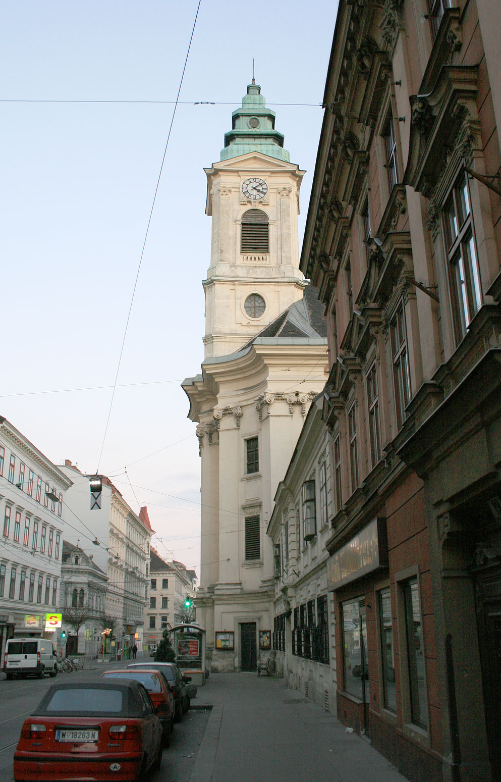 St. Laurenz am Schottenfeld, Westbahnstrasse, 7th district (Neubau) of Vienna; built in palladian stile from 1783, dedicated in 1786